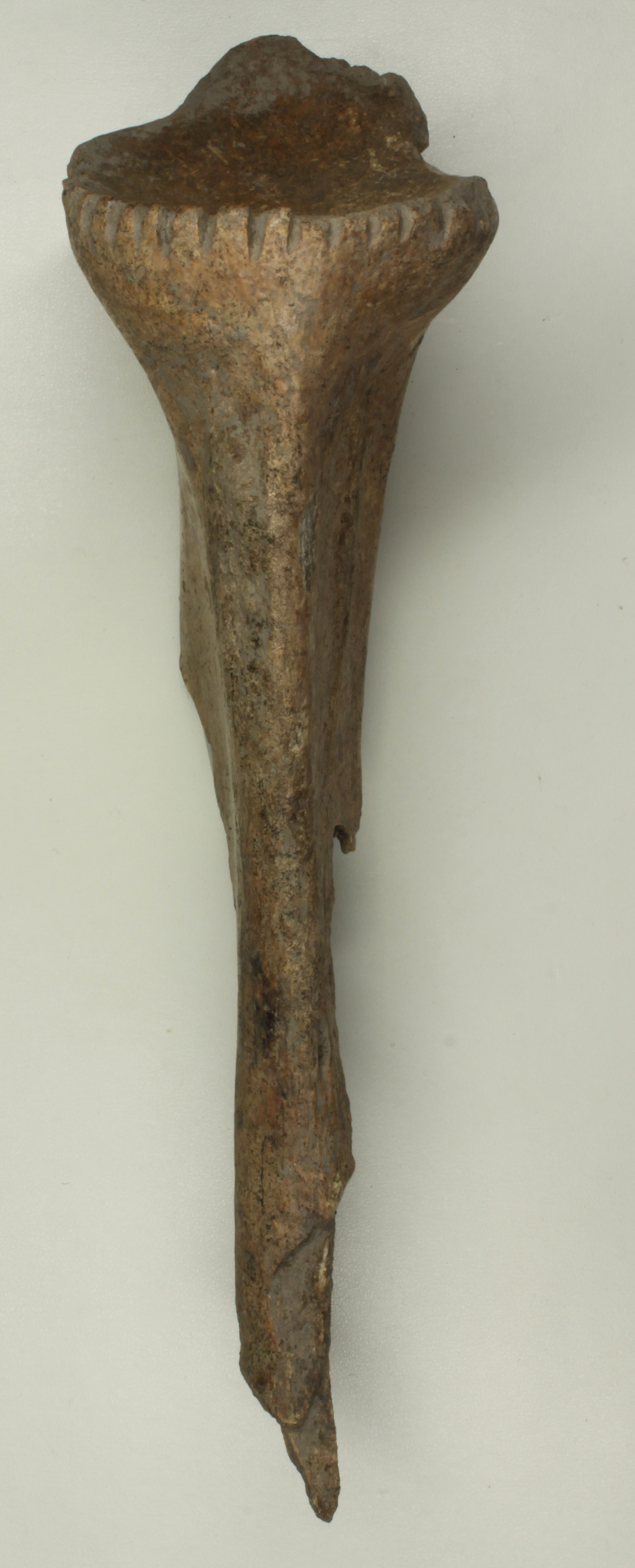 Crenated scapula from Rotbav, Transylvania, Romania